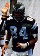 Philadelphia Eagles tight end Keith Krepfle pictured in an offensive play against the New Orleans Saints during a November 6, 1977 home game at Veterans Stadium.